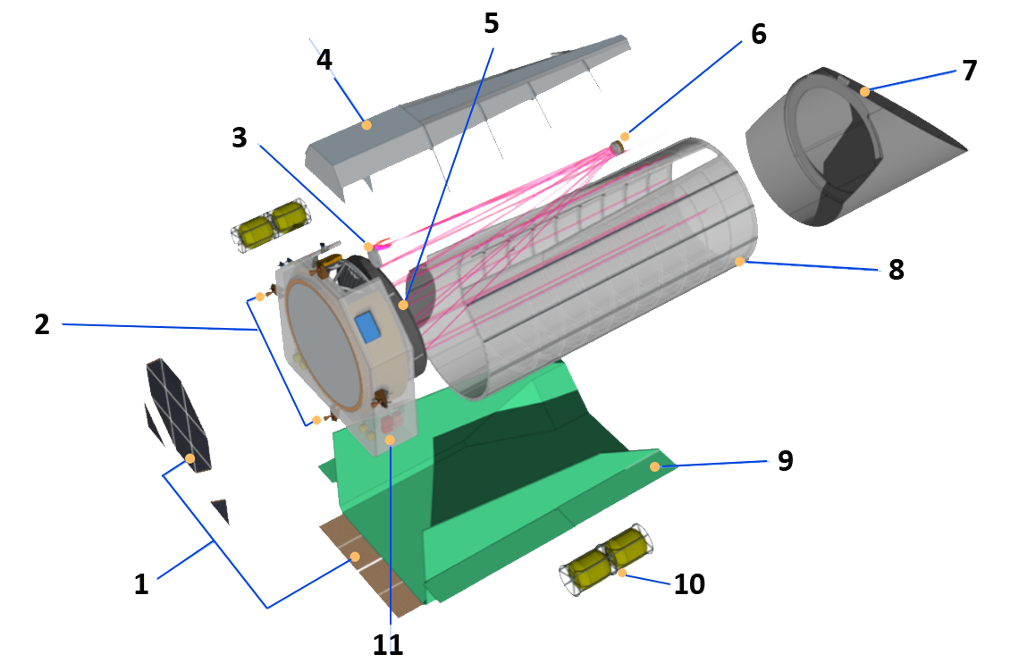 HabEx telescope : instrument exploded